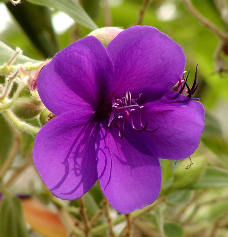 Photo of Tibouchina semidecandra at Aarhus Botanical Garden